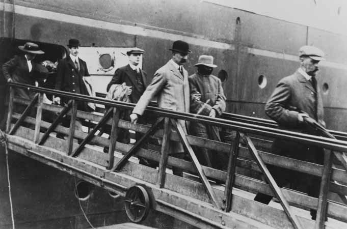 Photograph taken in 1910.